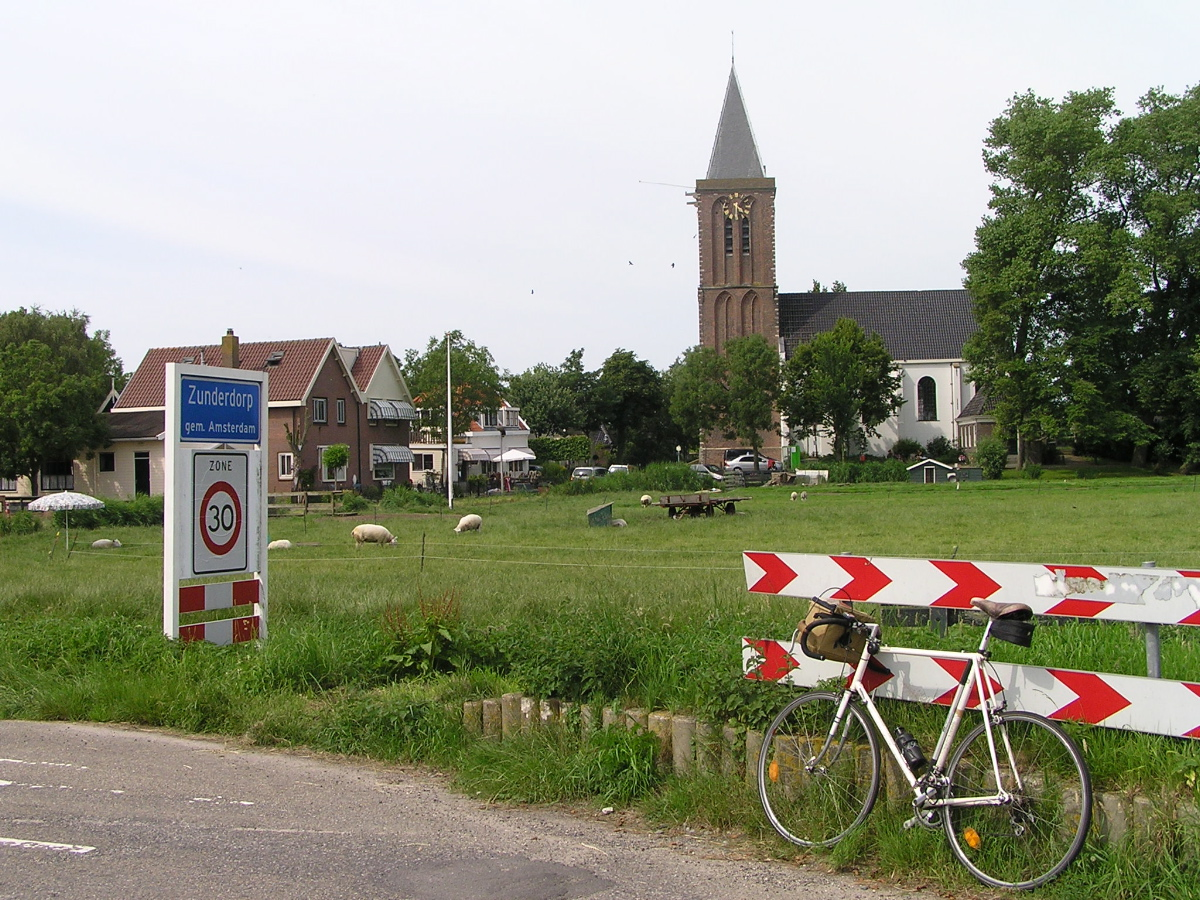 The village of Zunderdorp, near Amsterdam